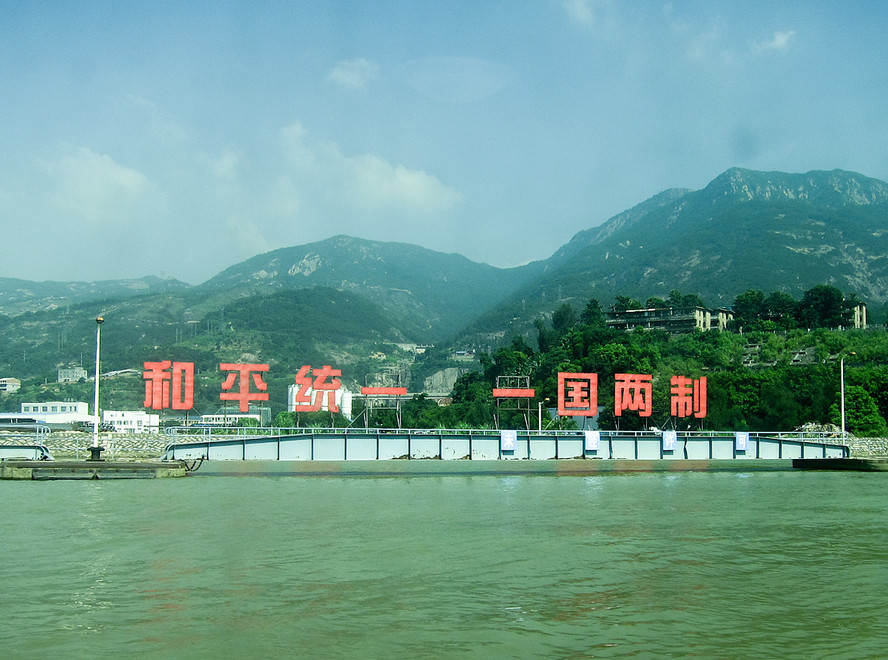 Sign in Mawei, China PRC facing Matsu ROC. Sign says "Peaceful Unification. One country two systems".